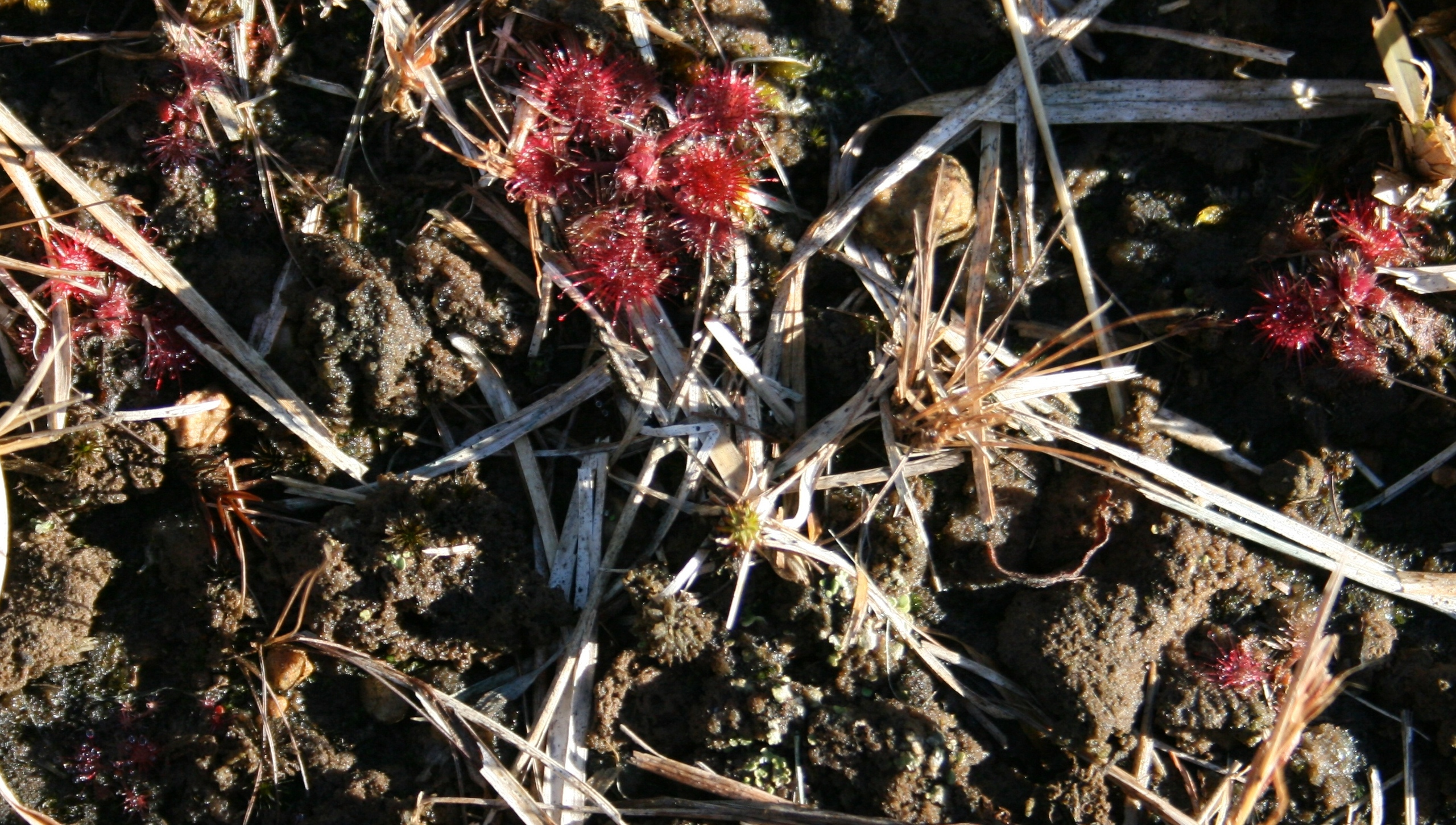 Drosera rotundifolia in Hureainomori Komaki, Aichi